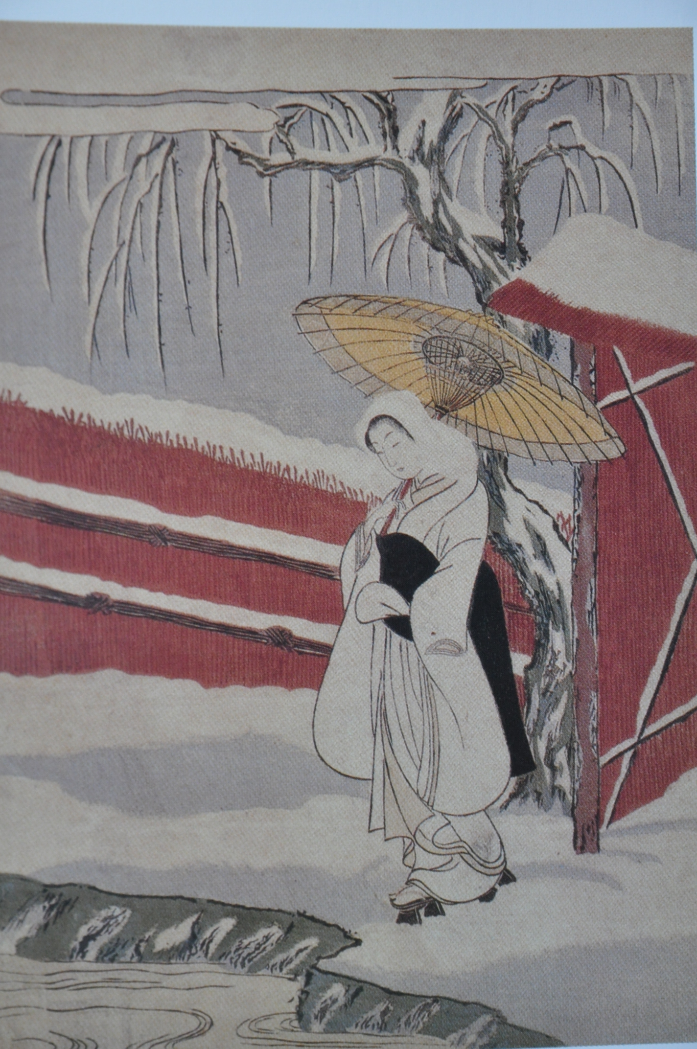 Suzuki Harunobu, chûban nishiki-e, between 1765 and 1770 : Young girl in the snow.